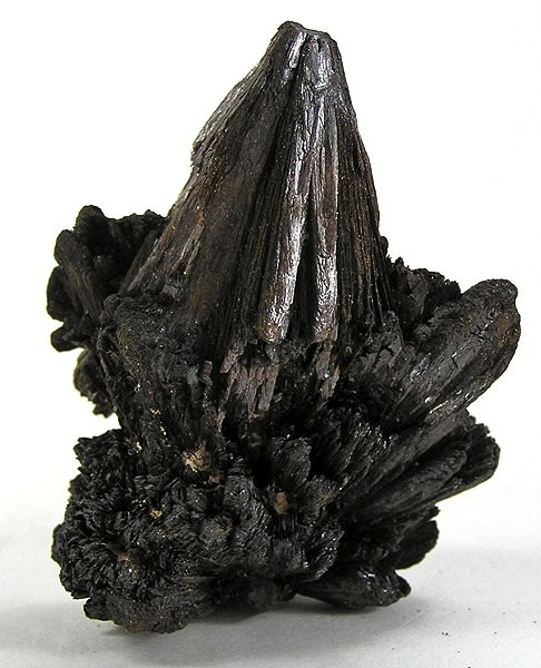 Hübnerite Locality: Adams Mine (Adams Tunnel Mine), Cement Creek, Silverton, Silverton District, San Juan County, Colorado, USA (Locality at ) Size: 4.7 x 3.6 x 1.8 cm. An excellent mini of Colorado hubnerite, with sprays of FINELY articulated crystals to over 2 cm in length. This is an old-timer from the Adams Mine, and hard to find! These can be pretty clunky, but this one has rare aesthetic qualities.